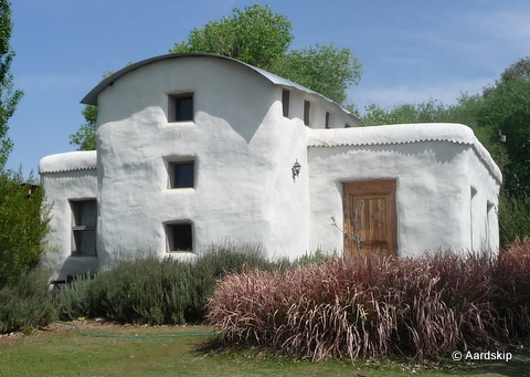 Die eerste strooibaalhuis in Orania wat deur Christiaan van Zyl ontwerp is The first strawbale house in Orania, architect Christiaan van Zyl